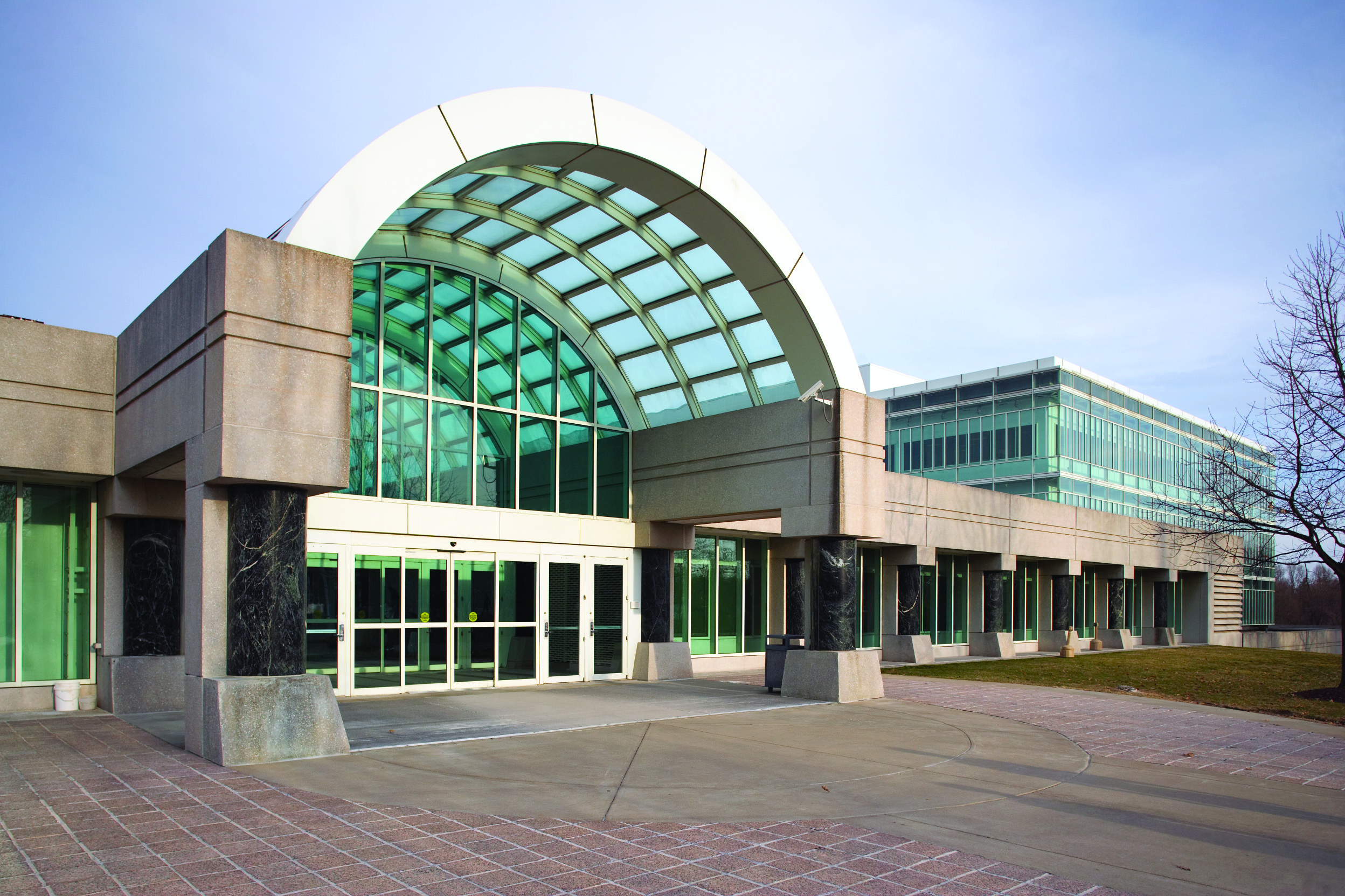 The entrance to the CIA New Headquarters Building (NHB) of the George Bush Center for Intelligence.